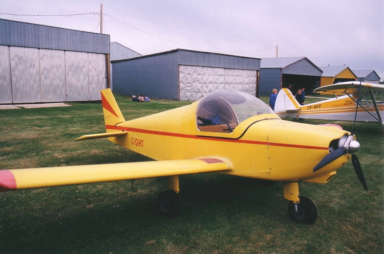 I took this photo of a Zenair CH200 at Lacombe, Alberta in 1998.